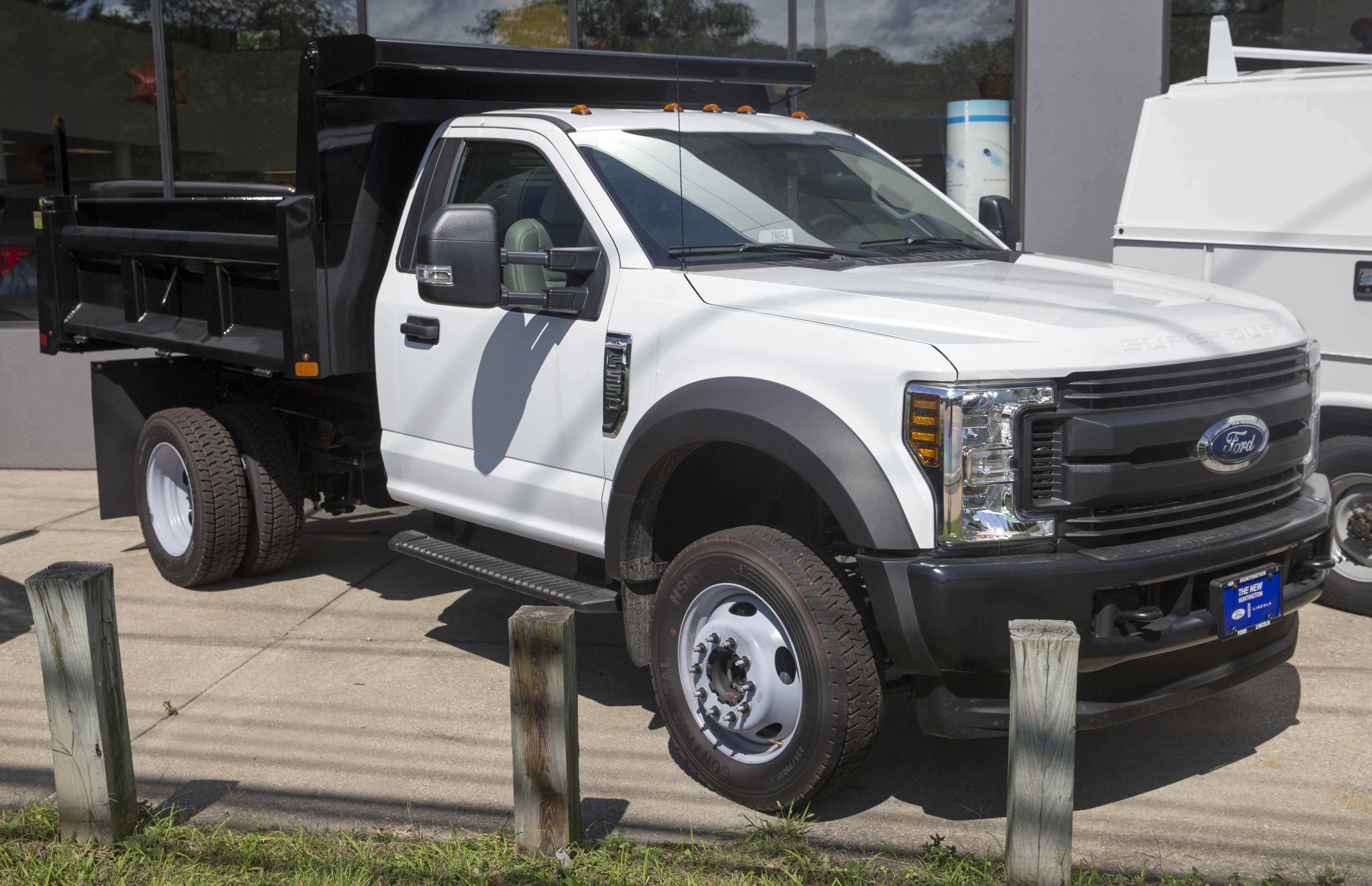 2019 Ford F550 Super Duty XL with a dump truck body.